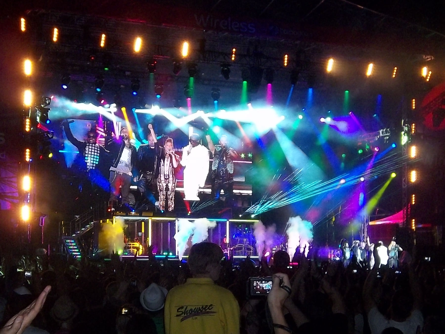 The Black Eyed Peas joined by DJ David Guetta headline the Wireless Festival in Hyde Park, London, July 2011.